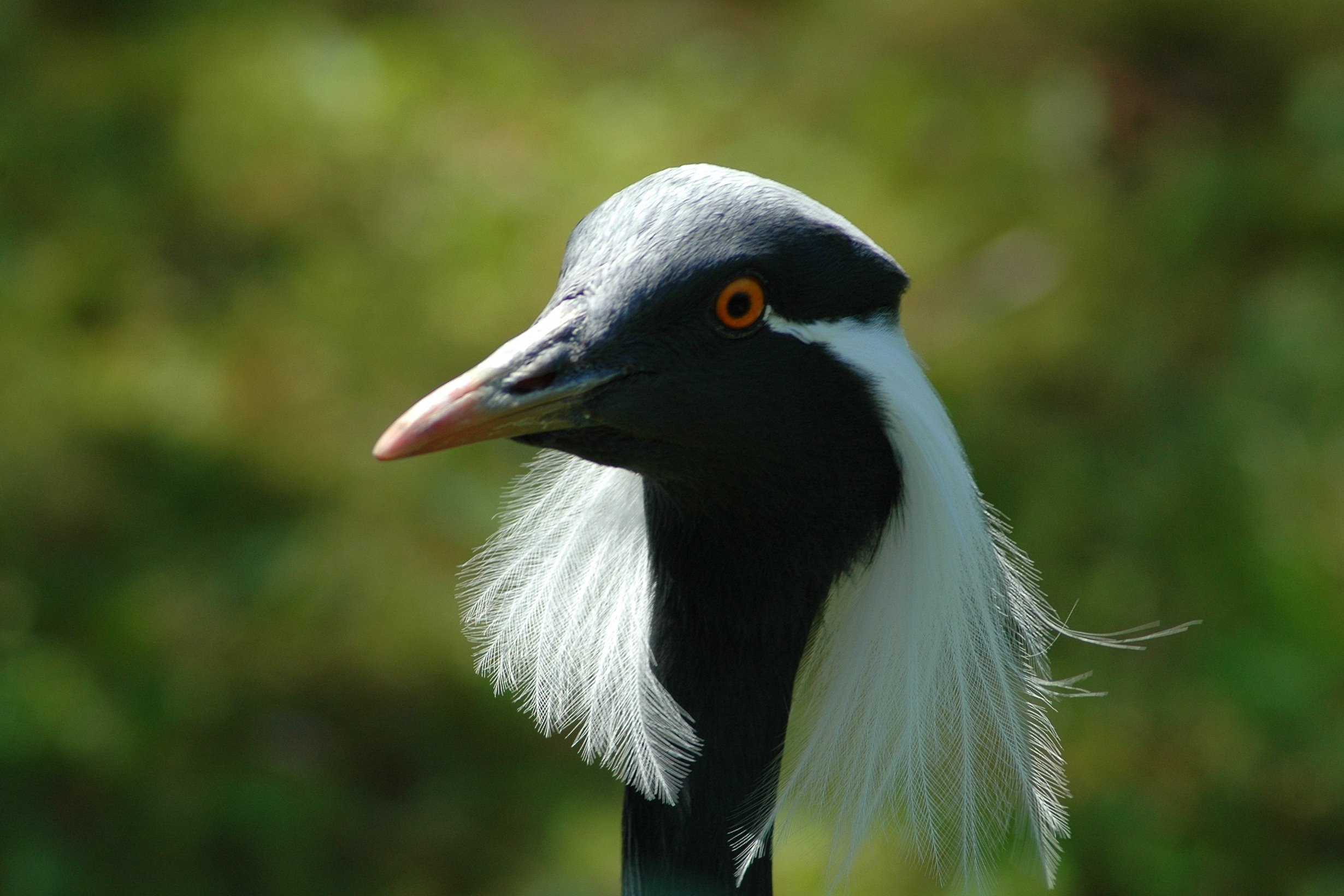 A Demoiselle Crane at Cape May Zoo, New Jersey, USA.